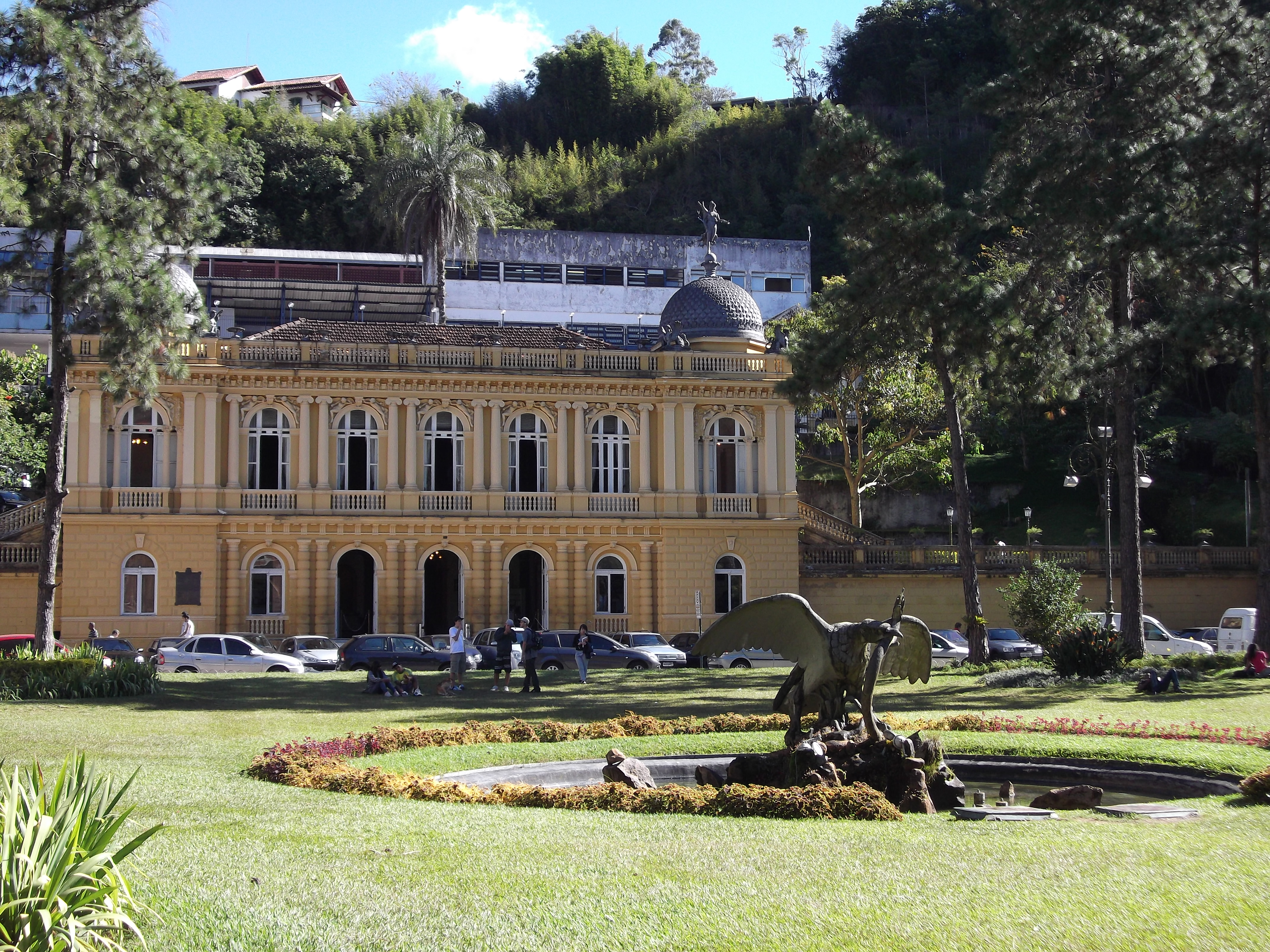 Yellow Palace, Petrópolis, Rio de Janeiro State, Brazil.